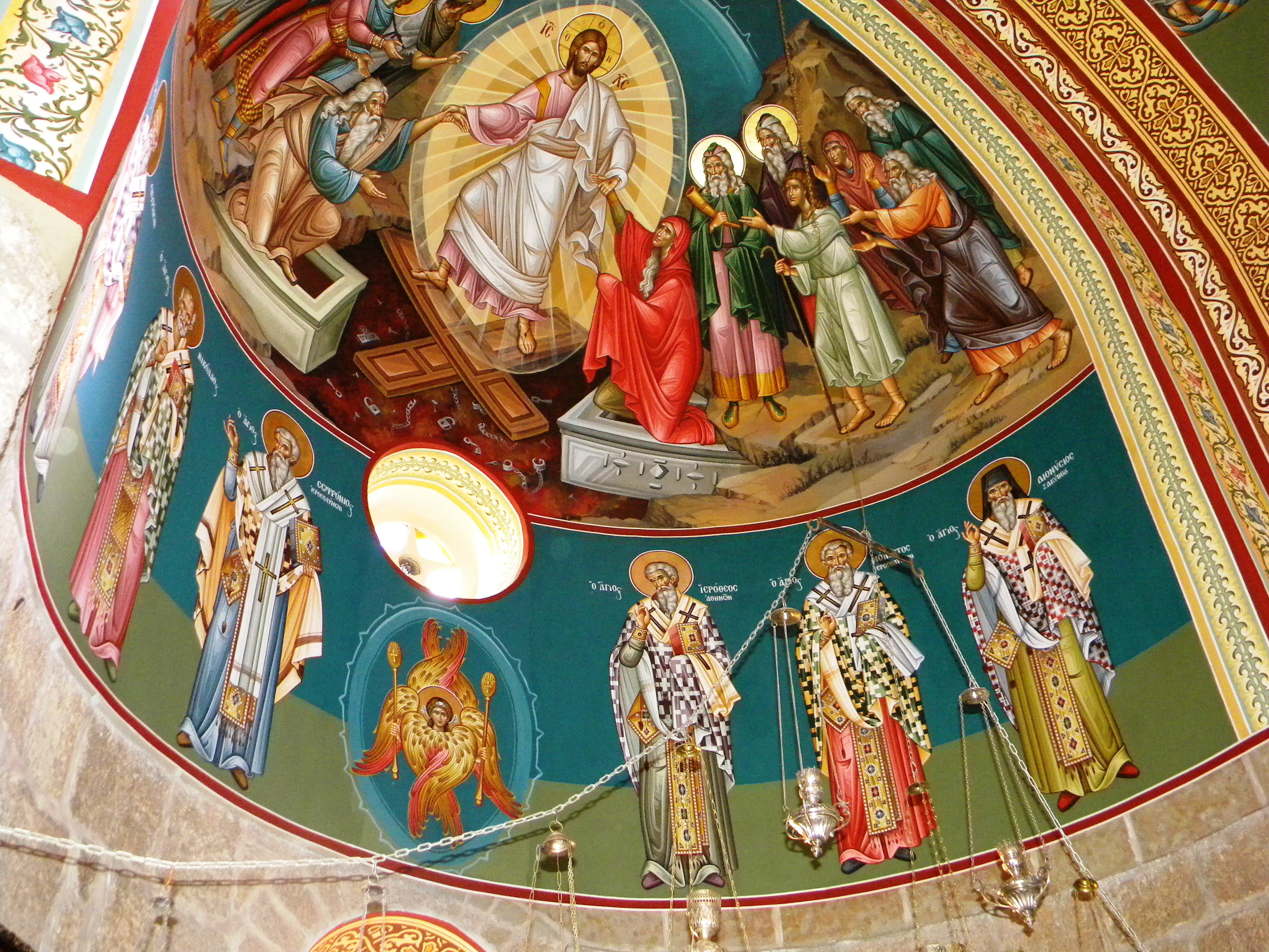 Monastery of Saint Theodosius (plaphon)(2)